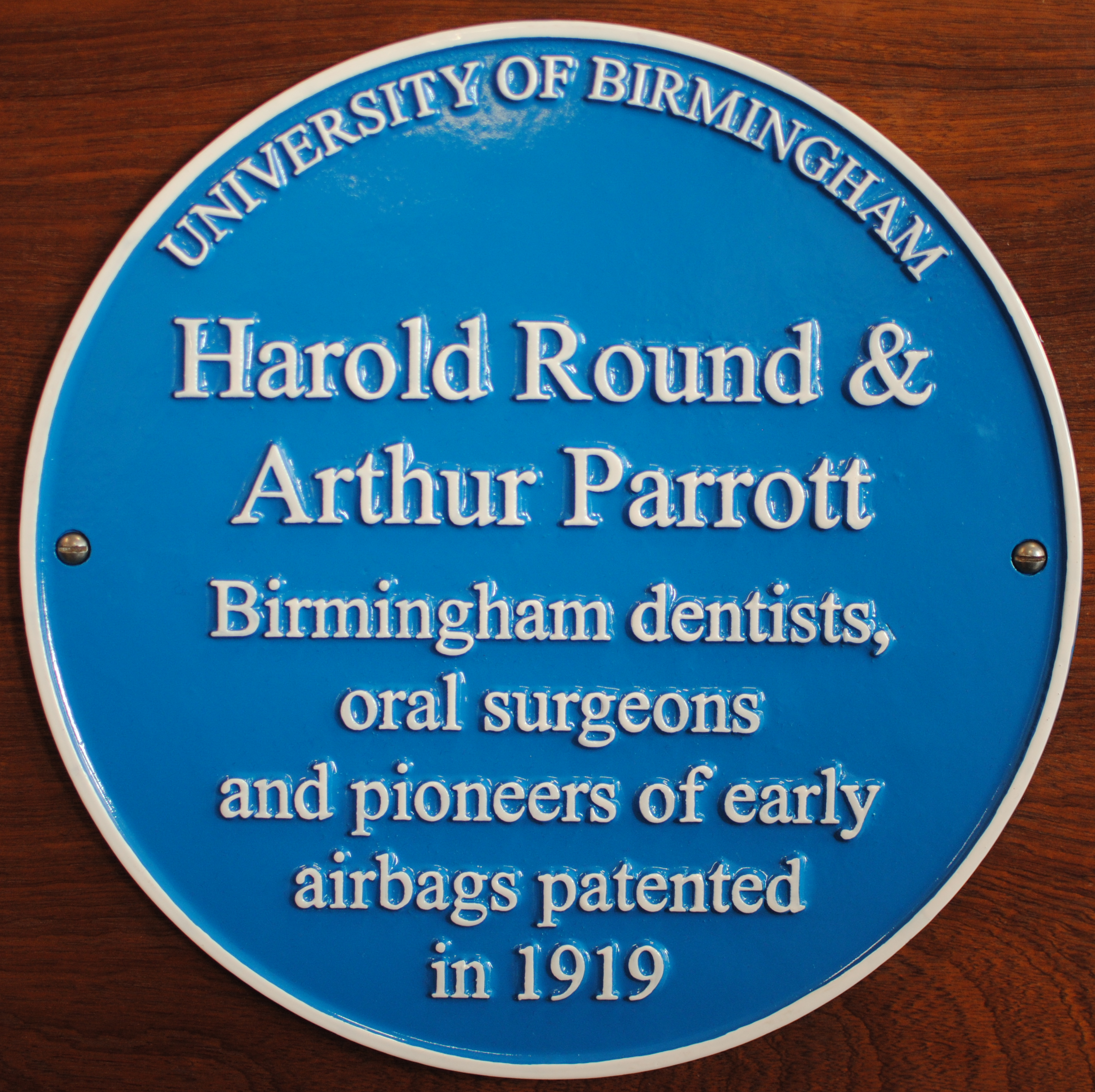 Unveiling of a blue plaque commemorating Harold Round & Arthur Parrott and their patent of a design for an airbag. The patent was applied for in 1919 and granted in 1920. The plaque was unveiled by Professor Iain Chapple, Head of the University of Birmingham’s School of Dentistry, and Professor Jonathan Reinarz, Director of The History of Medicine Unit at the University. The unveiling took place at Birmingham Dental Hospital - it is intended to erect the plaque on the exterior of the hospital in the coming weeks.